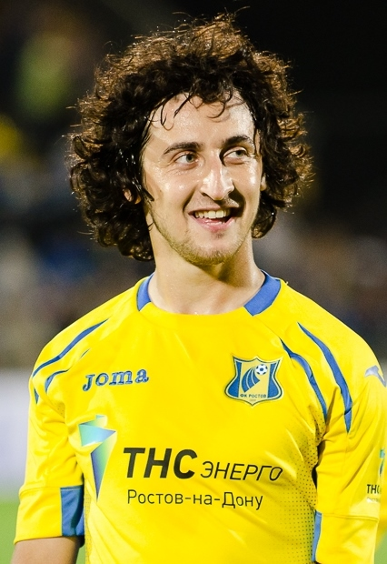 Khoren Bayramyan